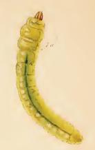 Stainton’s Natural History of the Tineina (1855–1873): Phyllonorycter acerifoliella larva